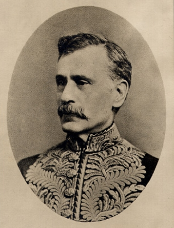 Portrait of Amédée Emmanuel Forget (1847-1923)